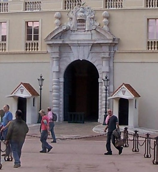 Detail from Image:Panorama schloss monaco.jpg uploaded to commons by . Berthold Werner here Image:Panorama schloss monaco.jpg.